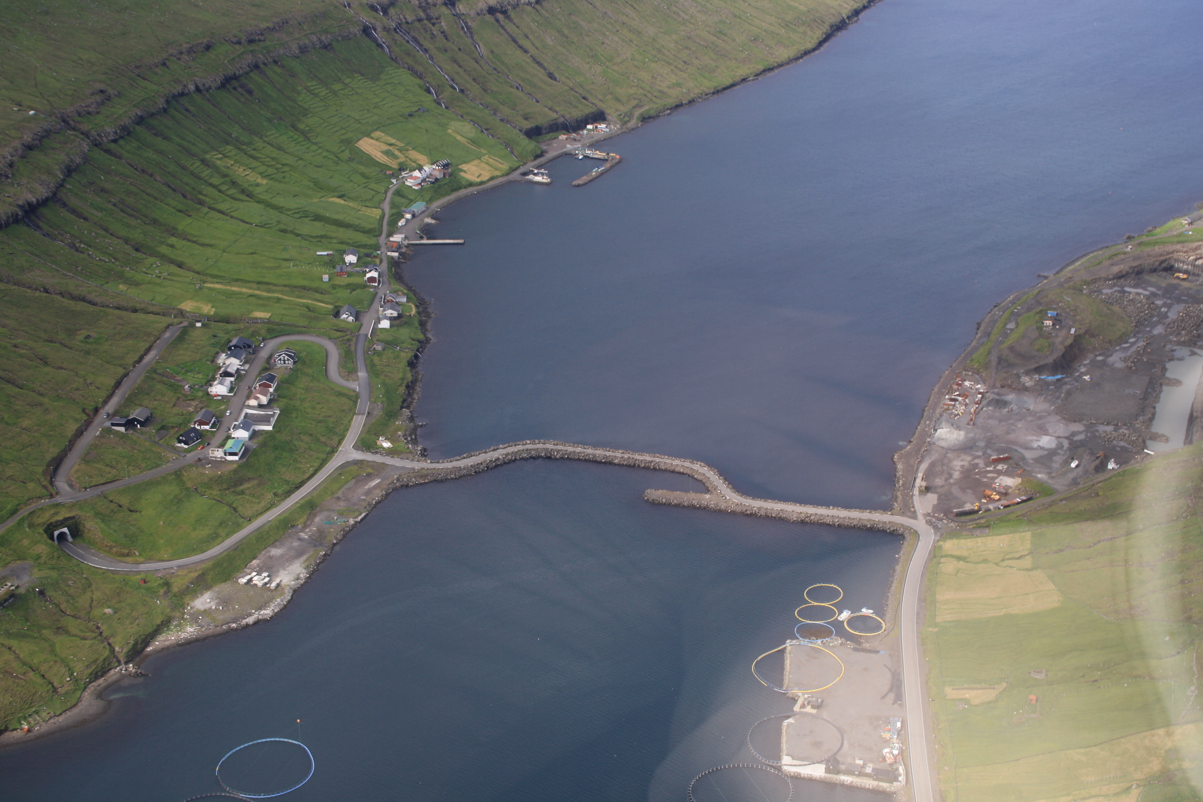 The dam between Borðoy (right) and Kunoy (left), Faroe Islands. On Kunoy the village of Haraldssund can be seen.